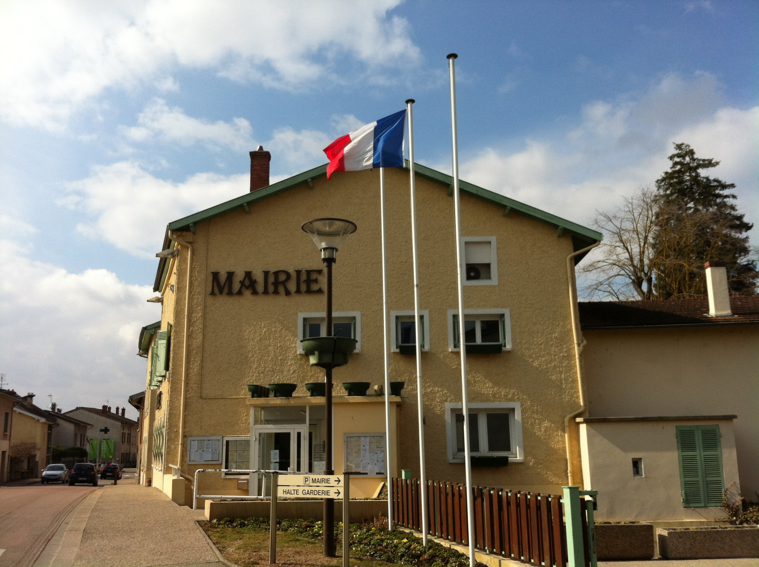 Town hall of Dagneux.